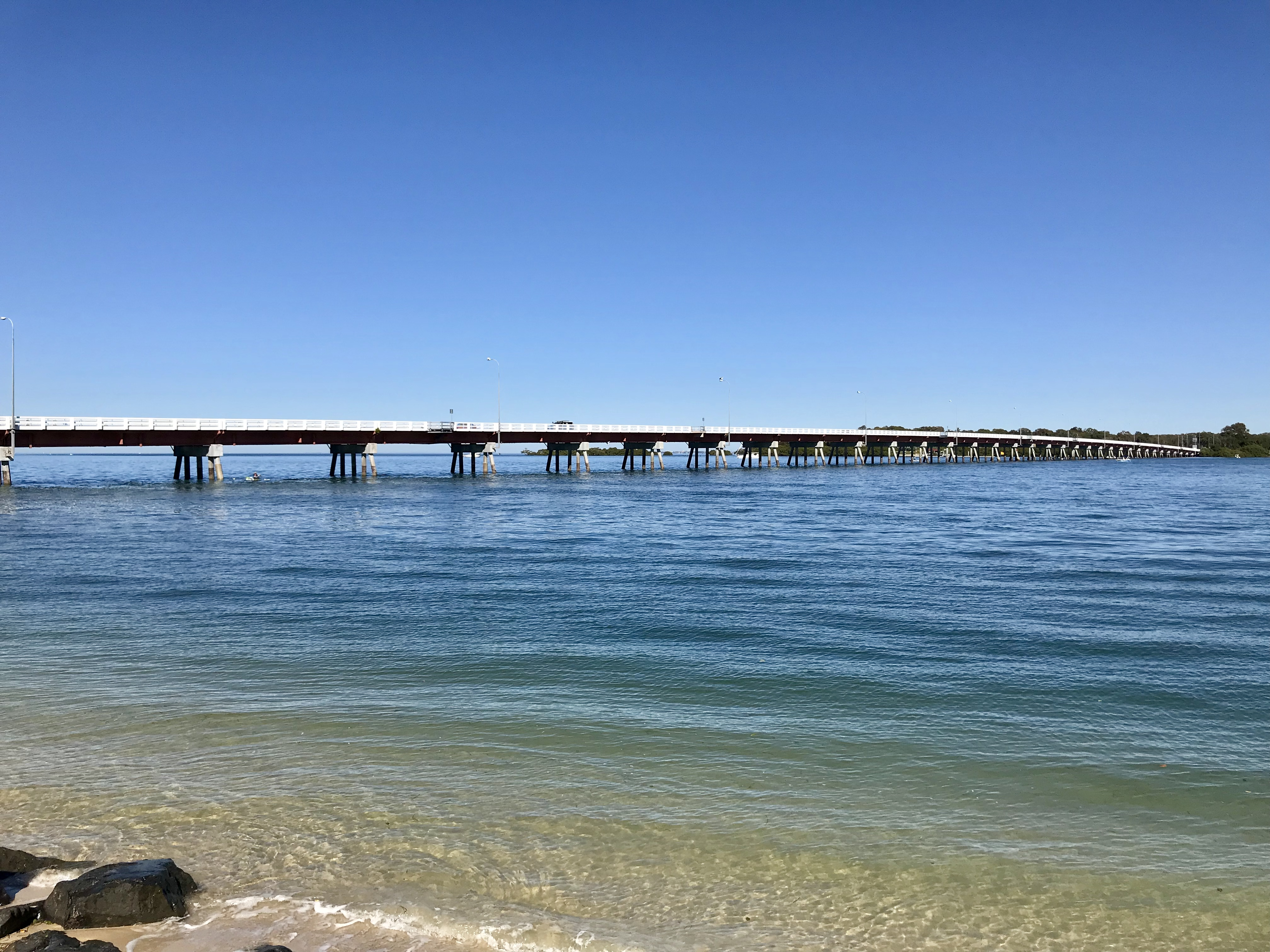 View of Bribie Island Bridge from the island